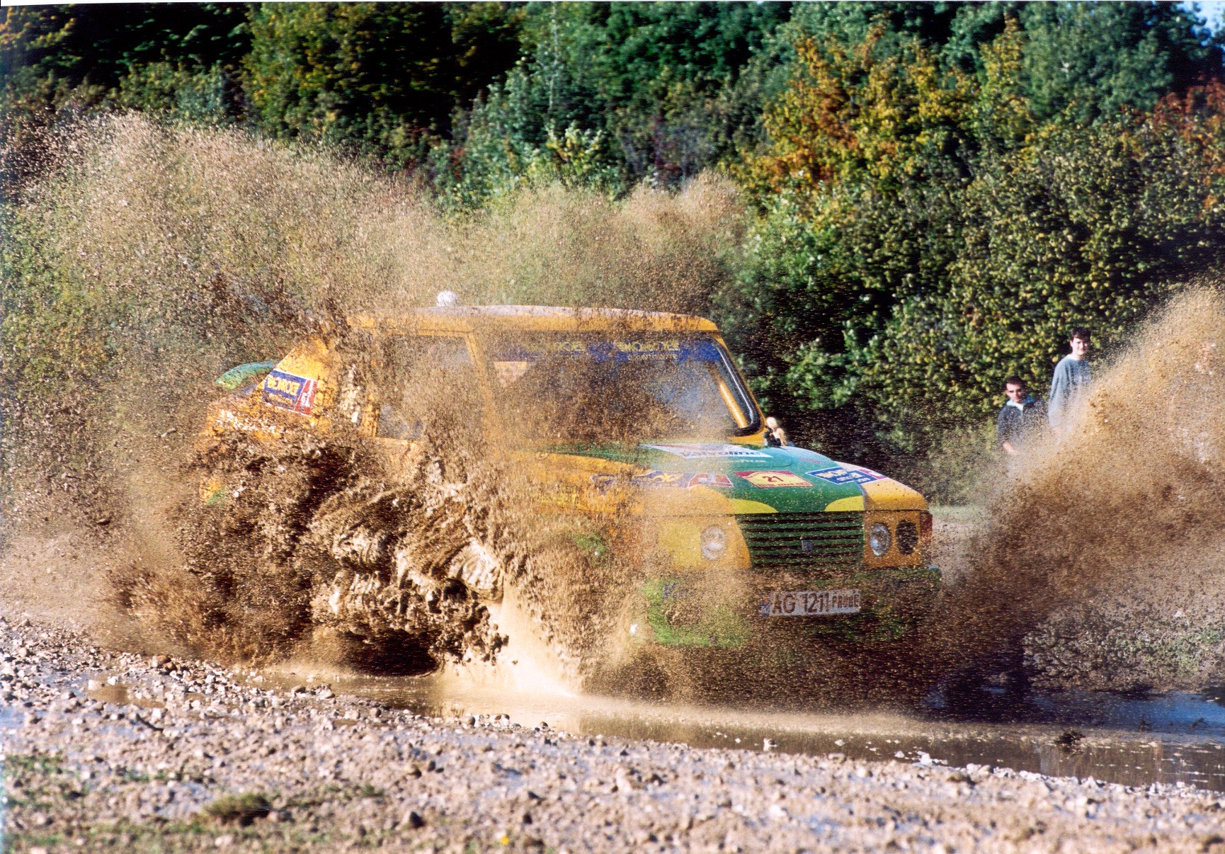 ARO 10 Super Rally motorizare Toyota 3400 cmc